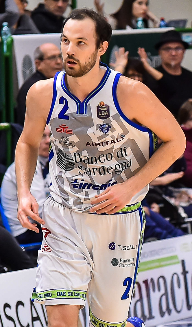 Knox Justin Banco di Sardegna Dinamo Sassari - Dolomiti Energia Trentino LegaBasket Serie A LBA Poste Mobile 2019/2020 Sassari 25/01/2020 Foto Ciamillo-Castoria